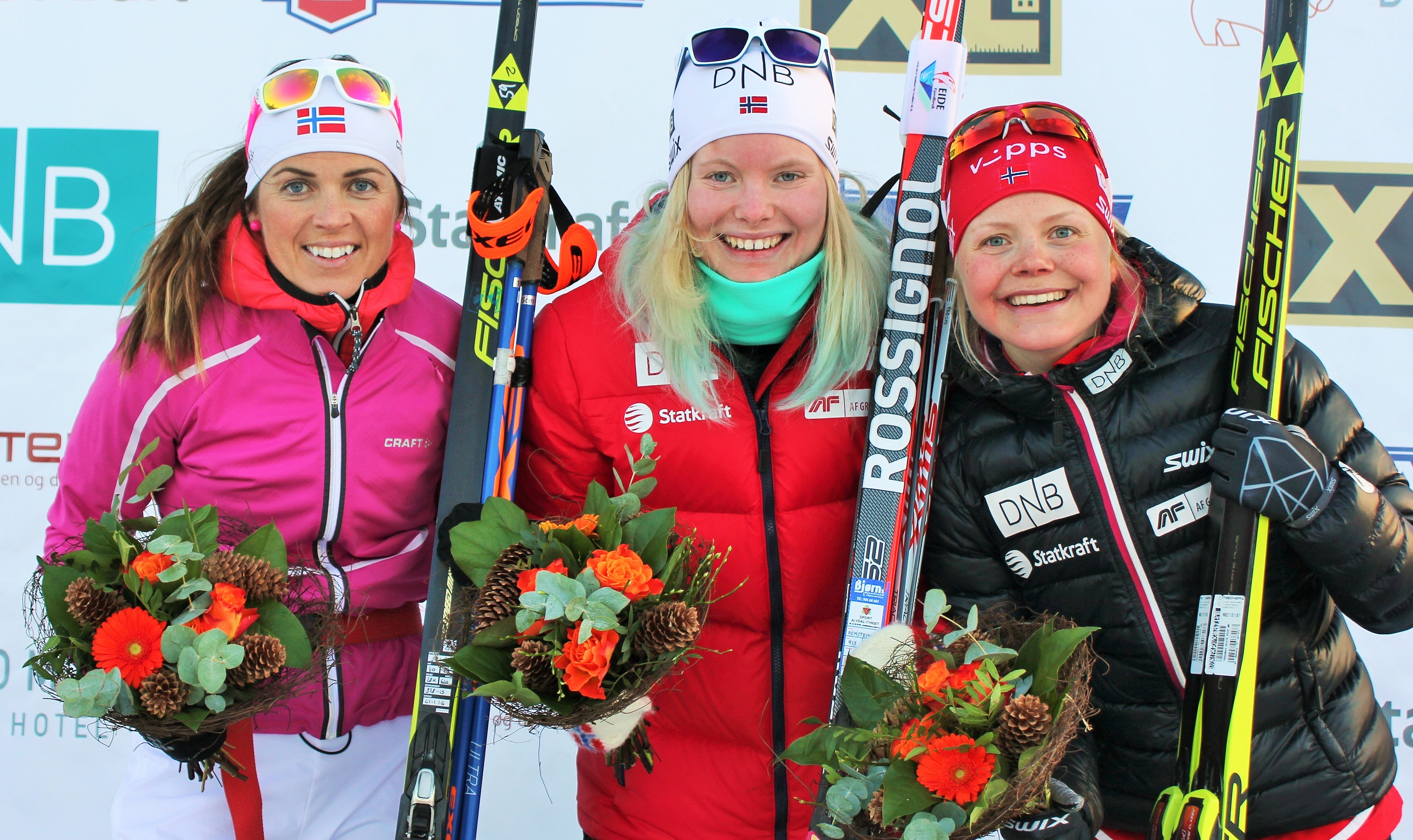 Winning relay team in the Norwegian championshiops 2016, Hordaland SSK. From left to right: Jori Mørkve, Ragnhild Femsteinevik and Hilde Fenne.